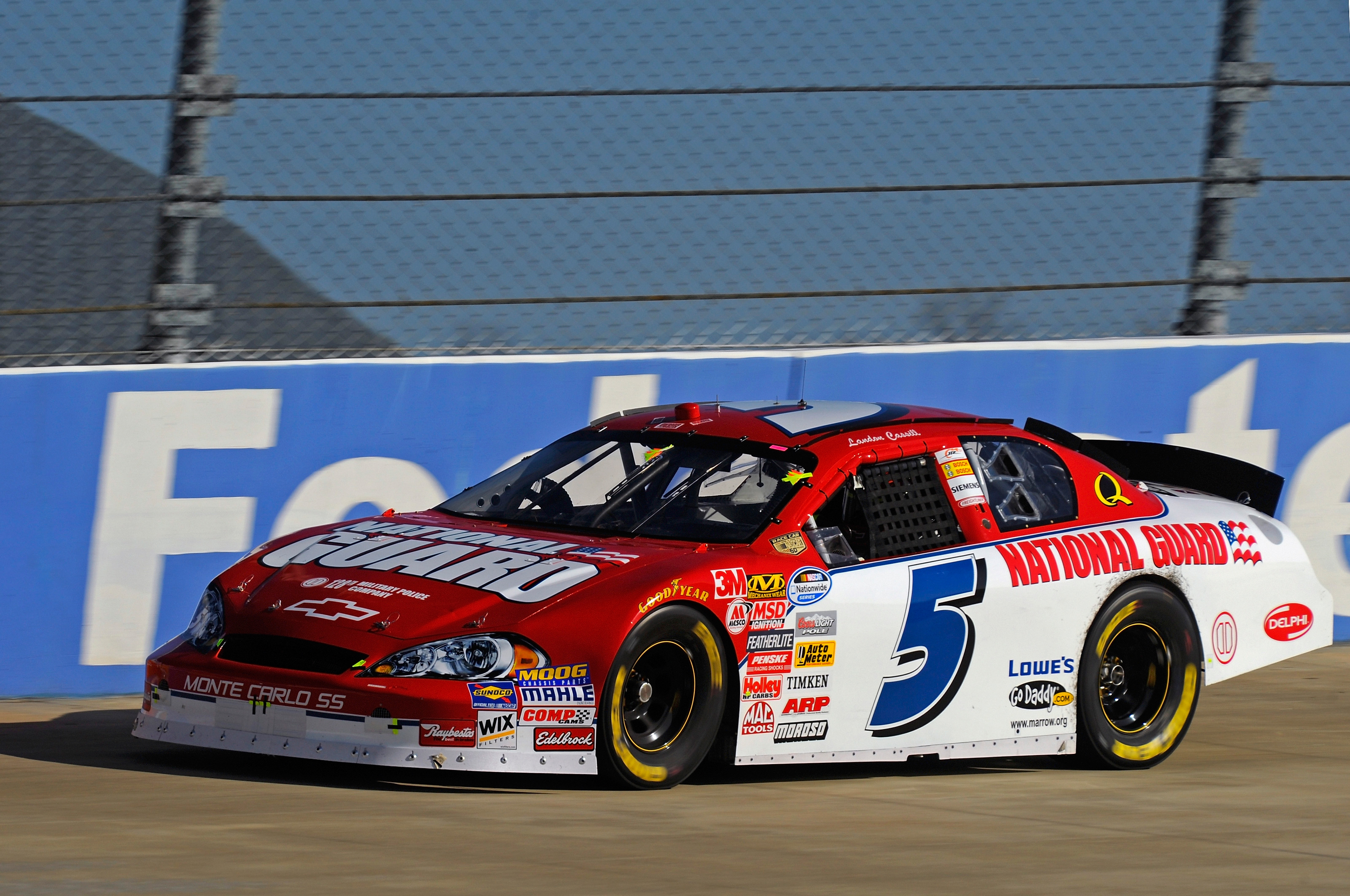 National Guard